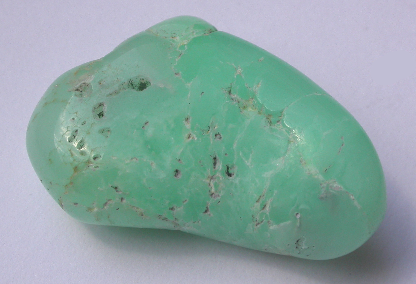 Chrysopraz - tumble polished stone